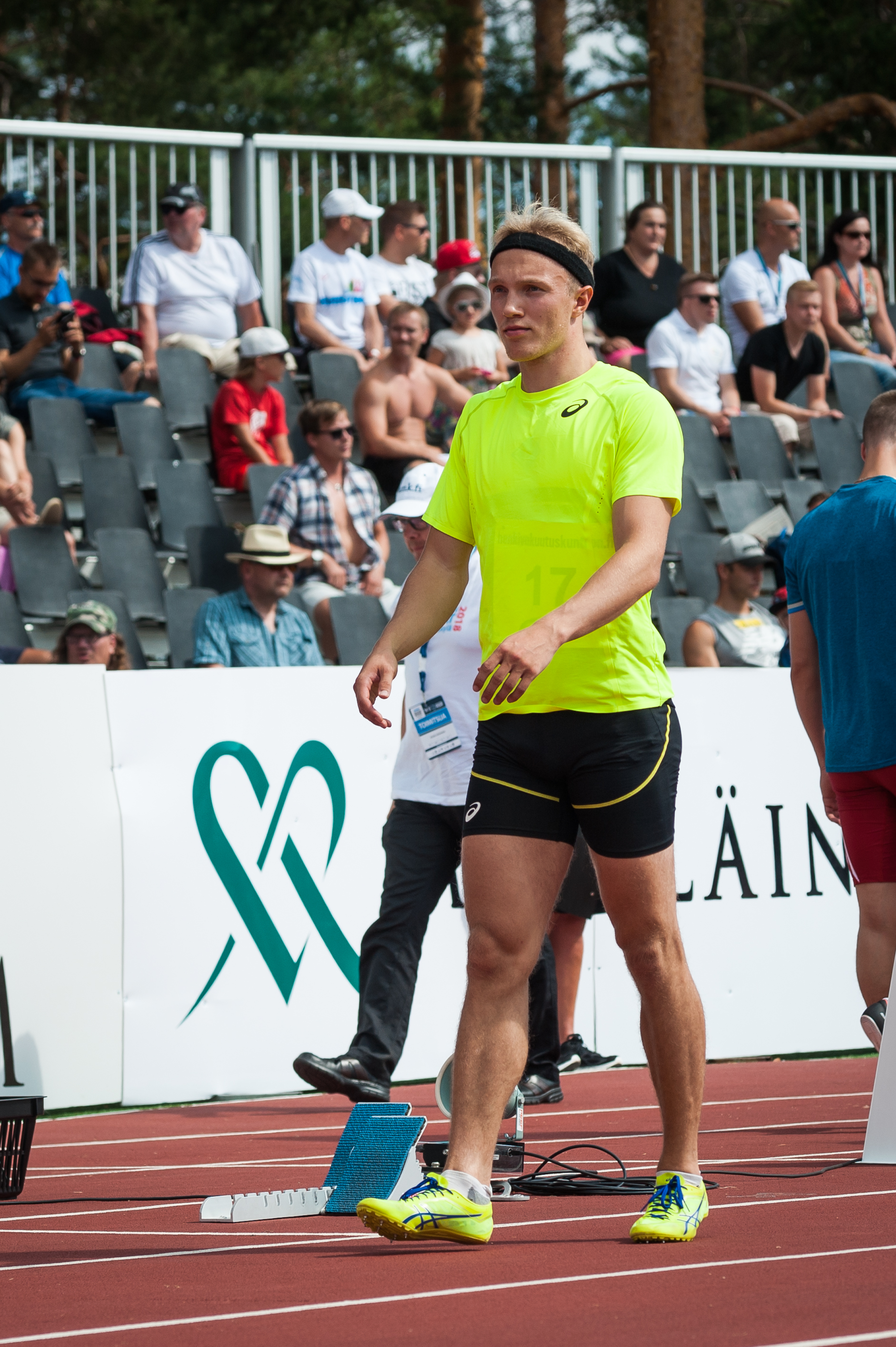 Men's 200 m competition at the 2018 Kalevan Kisat, the Finnish championships in athletics, in Jyväskylä, Finland.